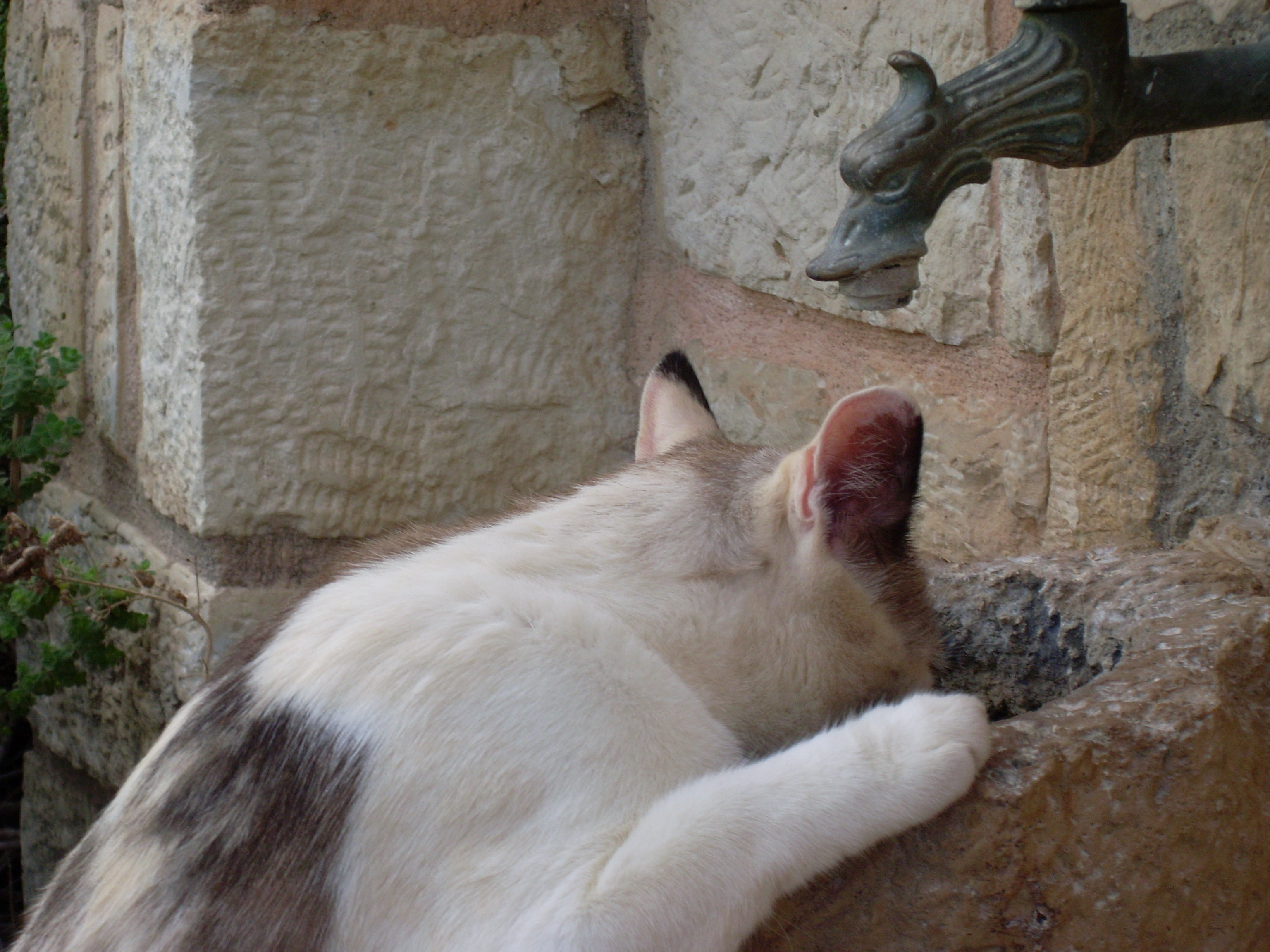 Cat drinking water